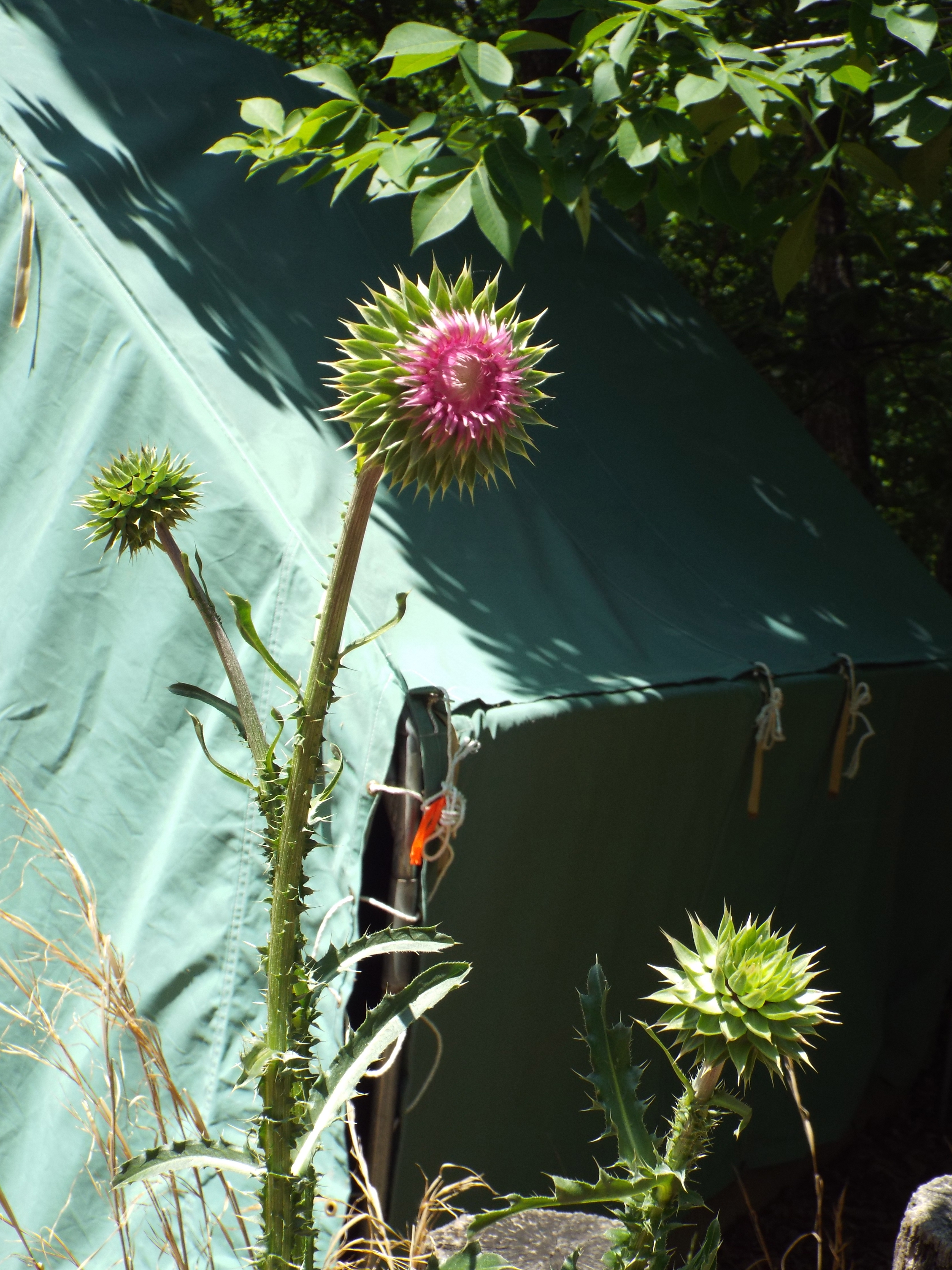 Asteraceae Cirsium altissimum found in Altamount, TN